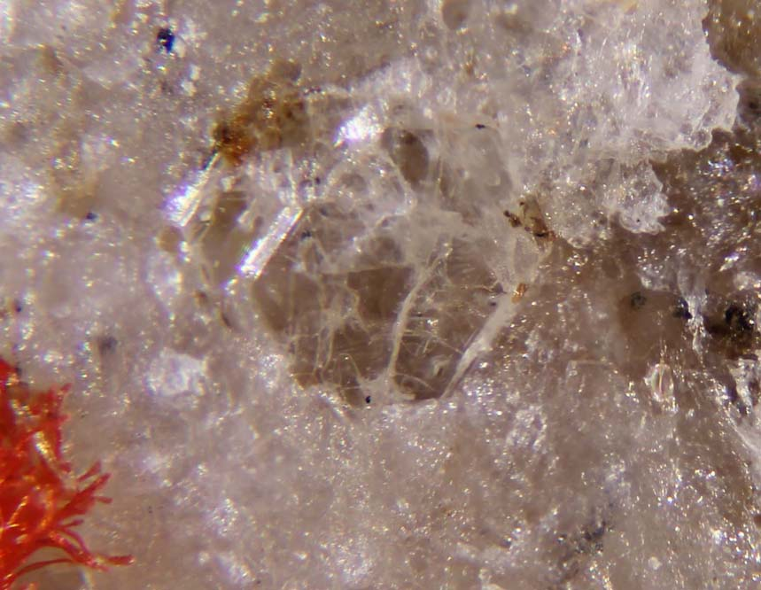 Colorless sharp hexagonal crystal of the extremely rare mineral swedenborgite (Na-Be-Sb oxide) from the type and only known locality worldwide, the famous Langban deposit (Sweden).